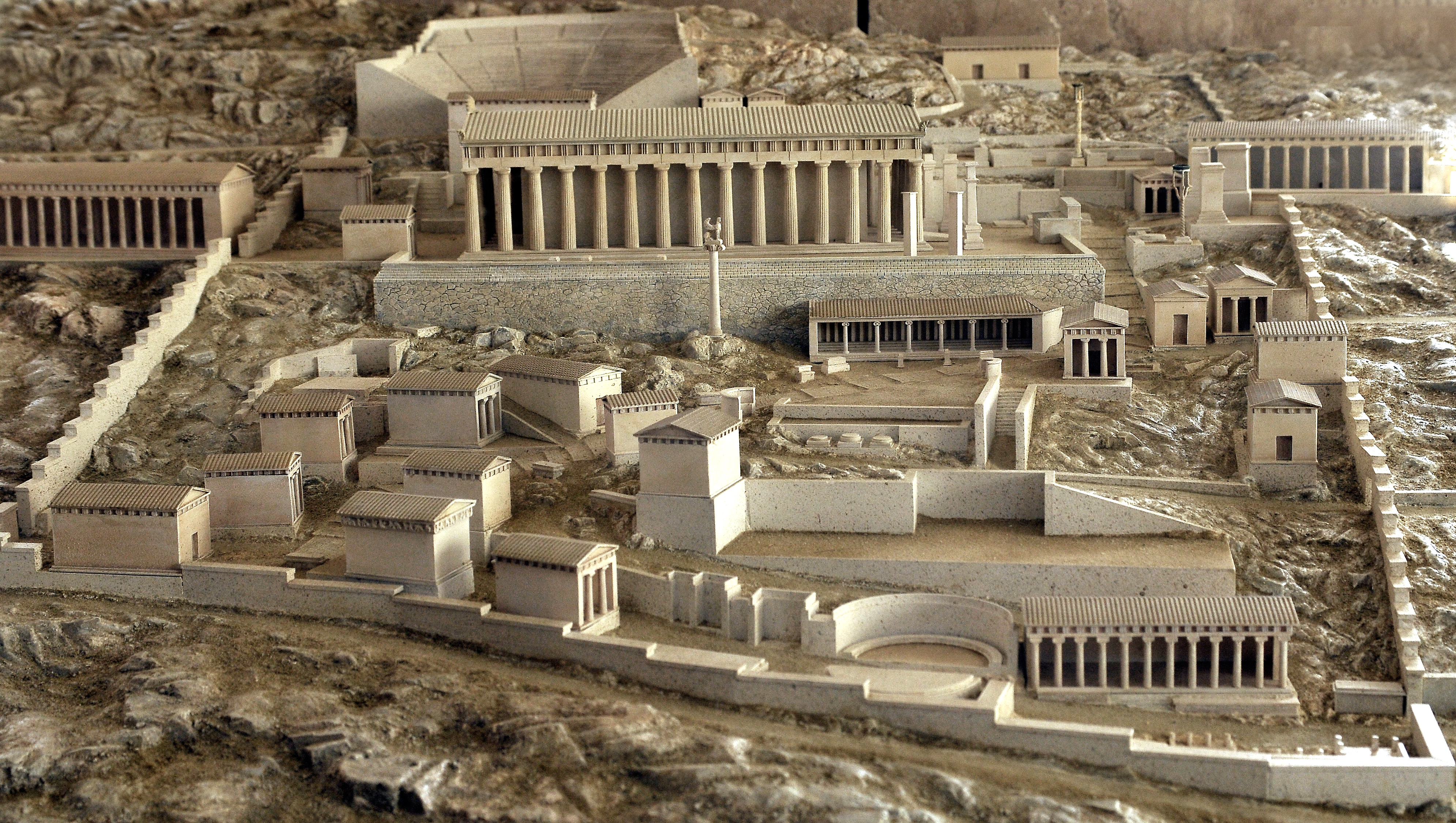 Model of the reconstruction of the sanctuary of Apollo at Delphi; Archaeological Museum of Delphi. Phocis, Greece